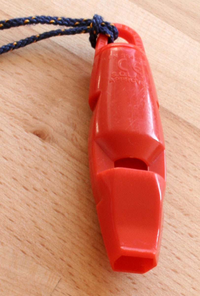 Schrillpfeife "A.C.M.E Survival"